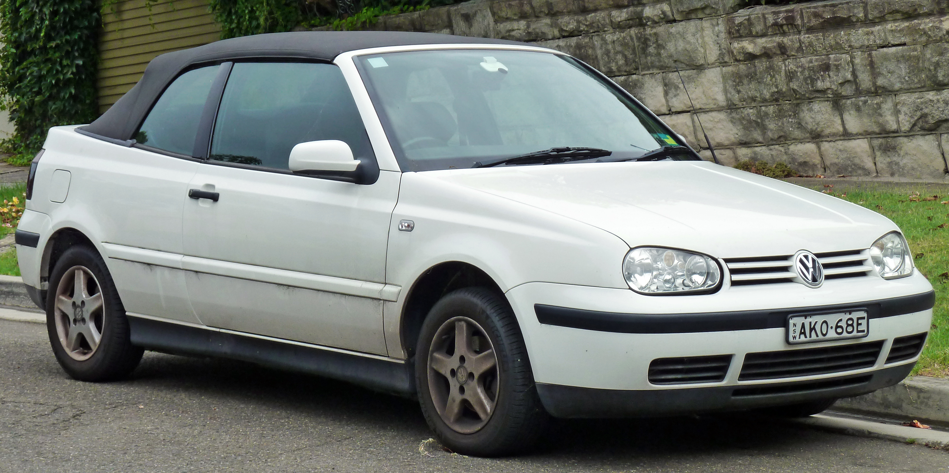 2001 Volkswagen Golf (1E) GL 2.0 convertible. Photographed in Bellevue Hill, New South Wales, Australia.